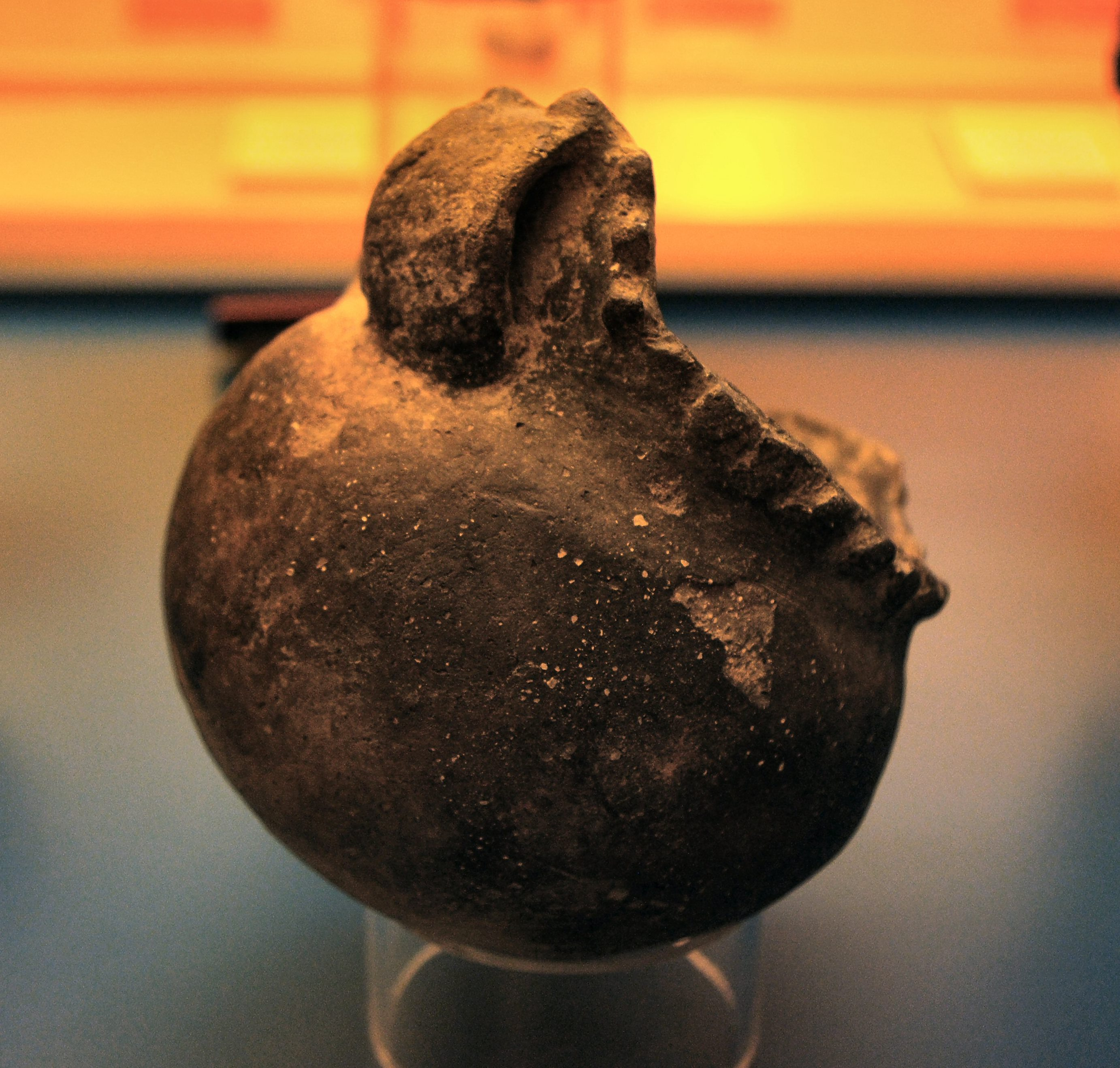 Mississippian period (1000–1600 A.D.) jar on display at the Great Smoky Mountains Heritage Center in Townsend, Tennessee, United States.